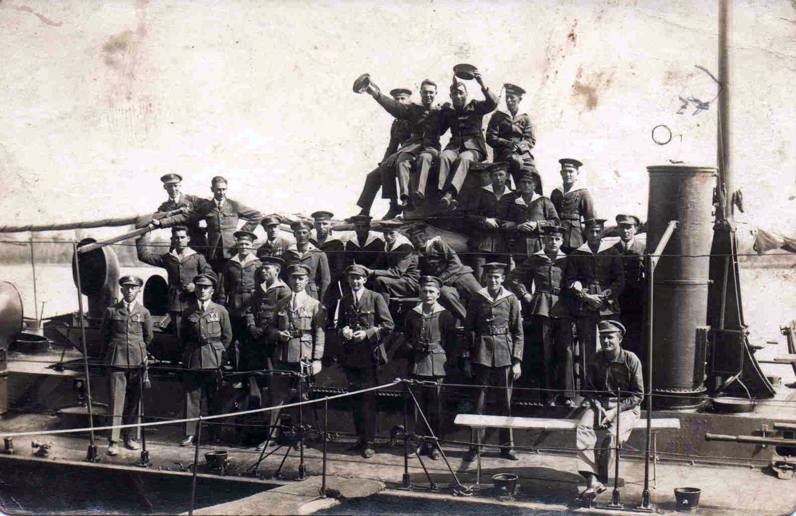 Hungarian crew of Wels-class river patrol boat. View from port. Crew on the top is sitting on the machine gun turret.